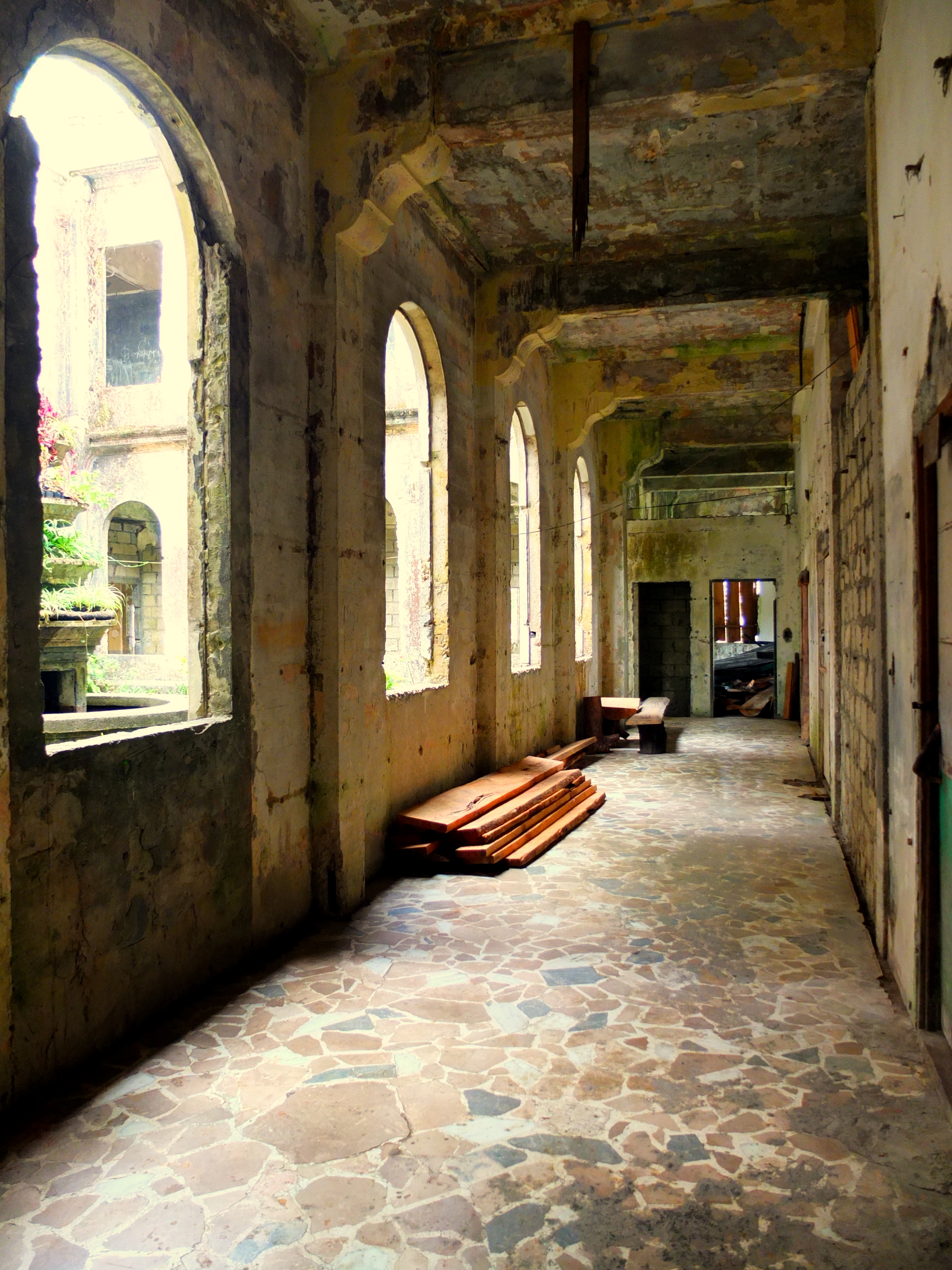 Corridor inside the abandoned Diplomat Hotel